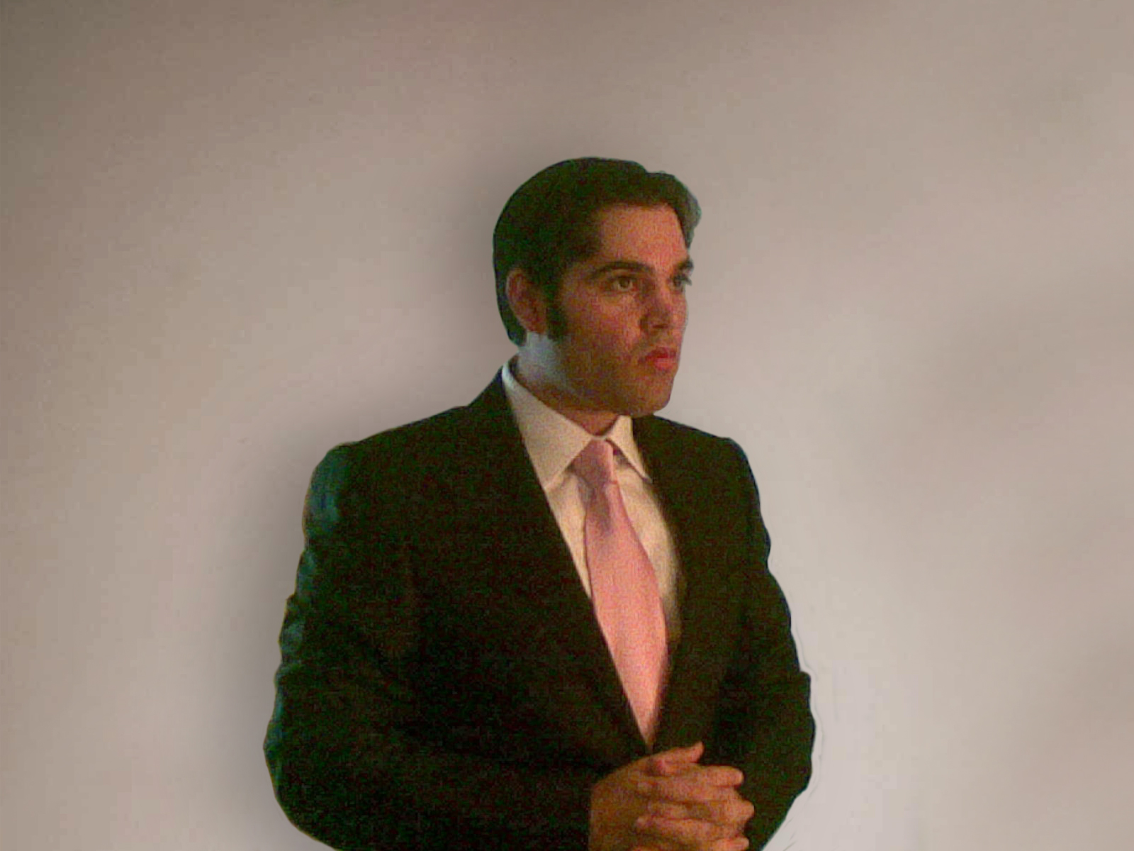 Mr. Feroze Varun Gandhi